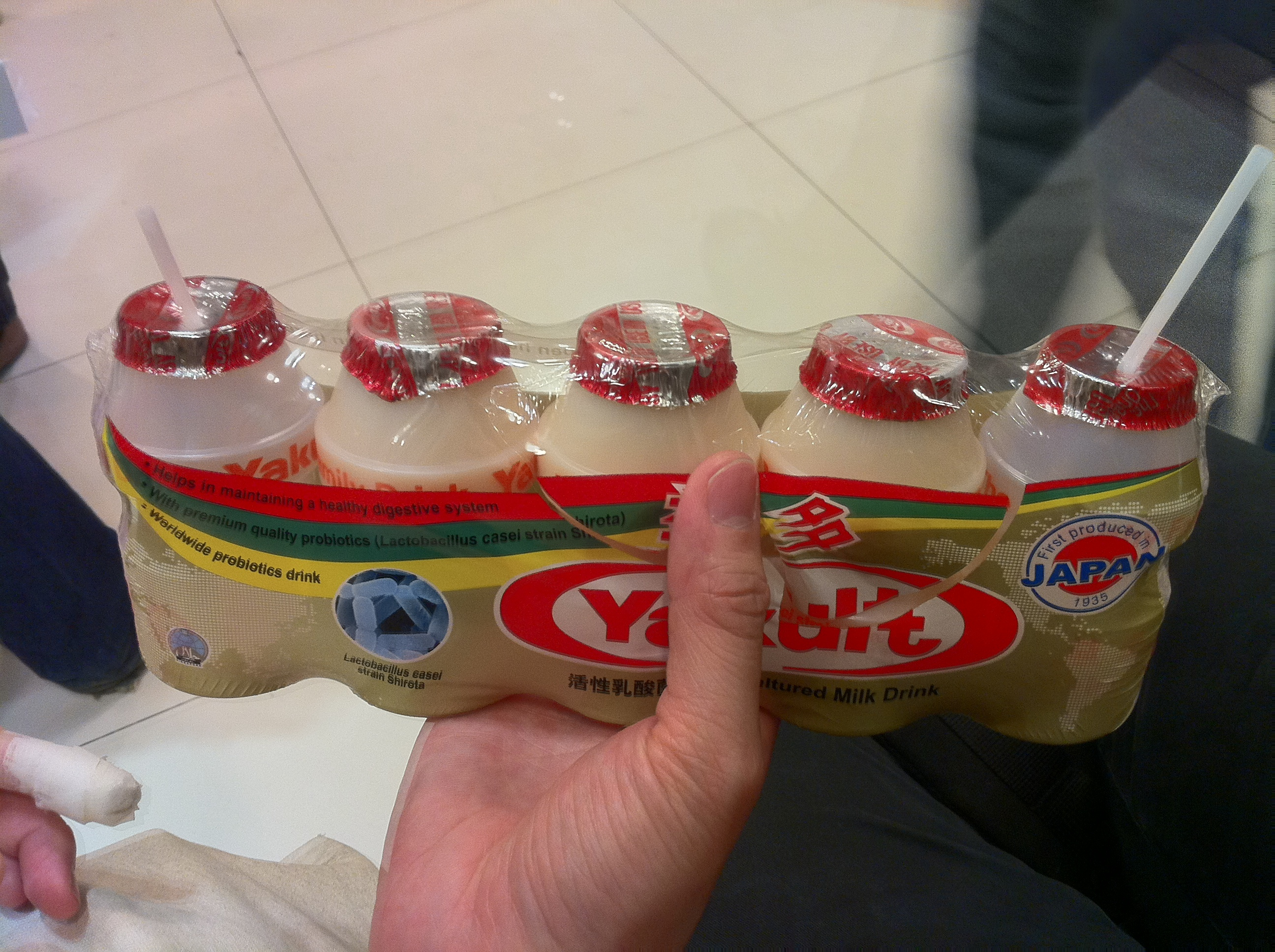 two straws and you don't remove the plastic packing around it! Our attempts at having a healthy night out involve extreme methods of introducing some live probiotic strain of good bacteria into our diet